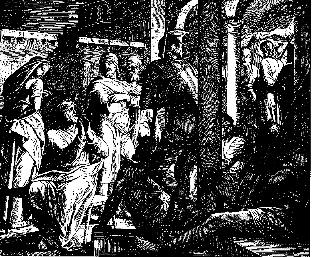 Woodcut for "Die Bibel in Bildern", 1860.